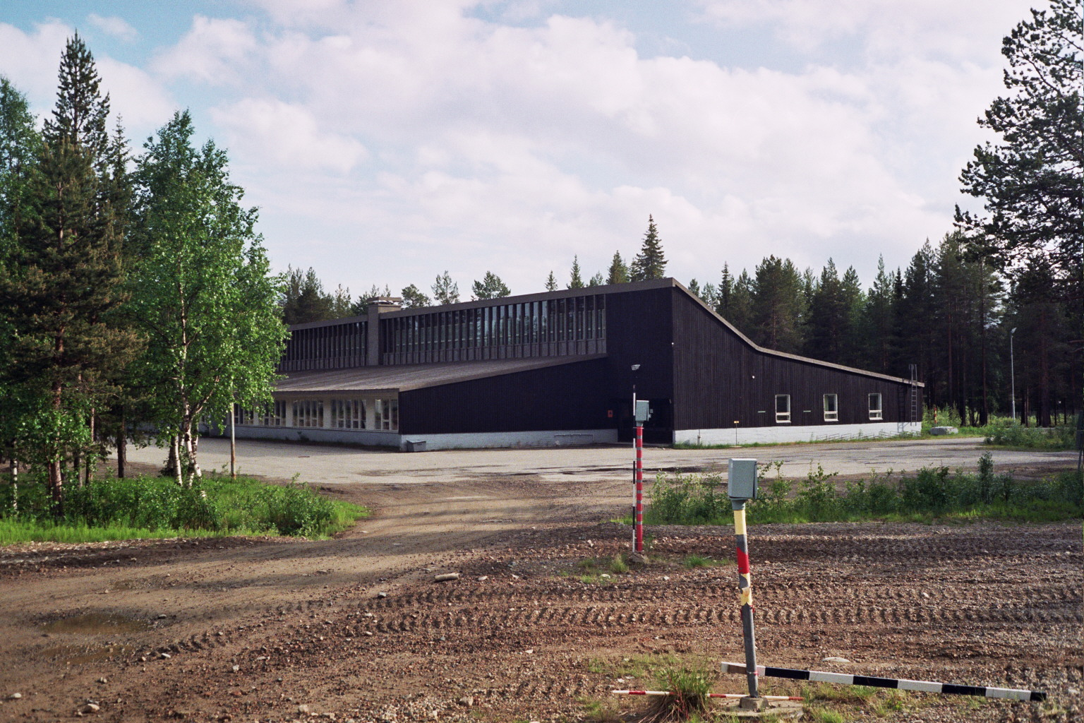 One of the barracks of Jaeger Brigade, Sodankylä, Finland. Back in 1997, it housed the antitank company (PstK) of the brigade.